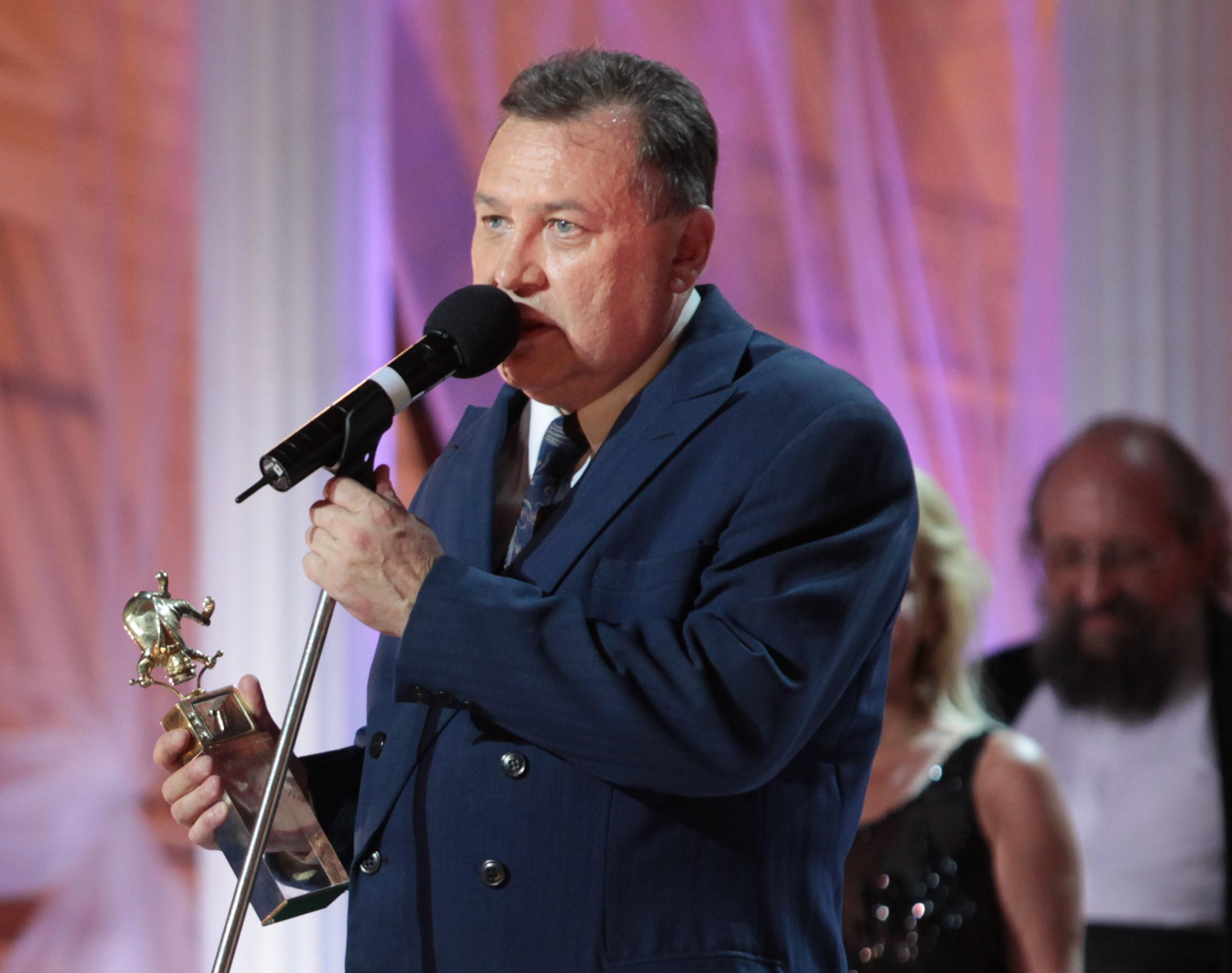 Alexander Chistyakov, Russian Impersonator.